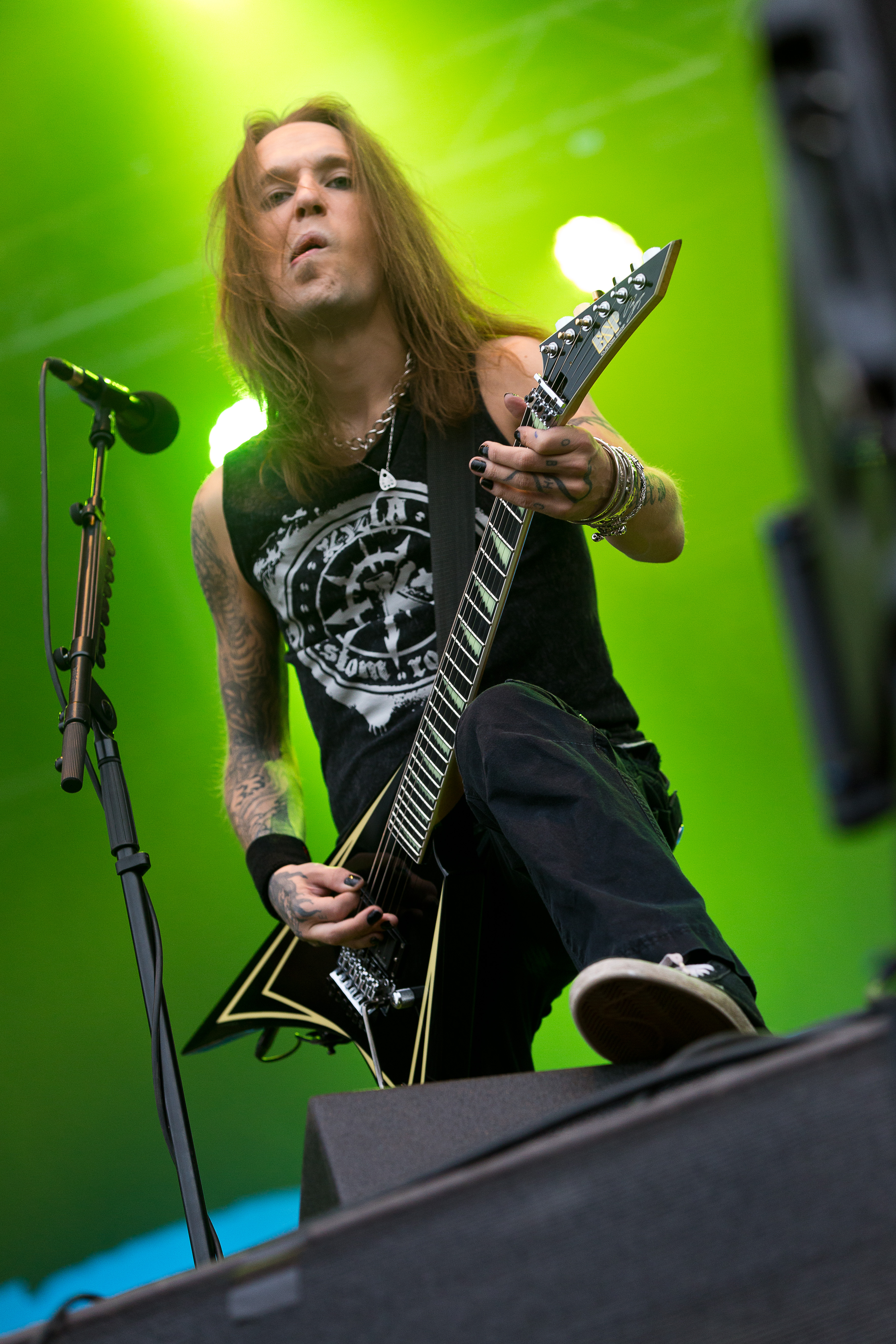 The Finnish melodic death metal band Children of Bodom at the Rockharz Open Air 2016 in Ballenstedt/Germany.